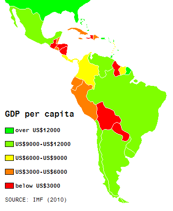 Map of Latin American countries by nominal GDP per capita in 2010 according to IMF